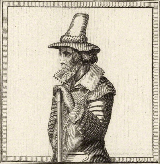 A line engraving of Thomas Wintour made by Adam, published in 1794.